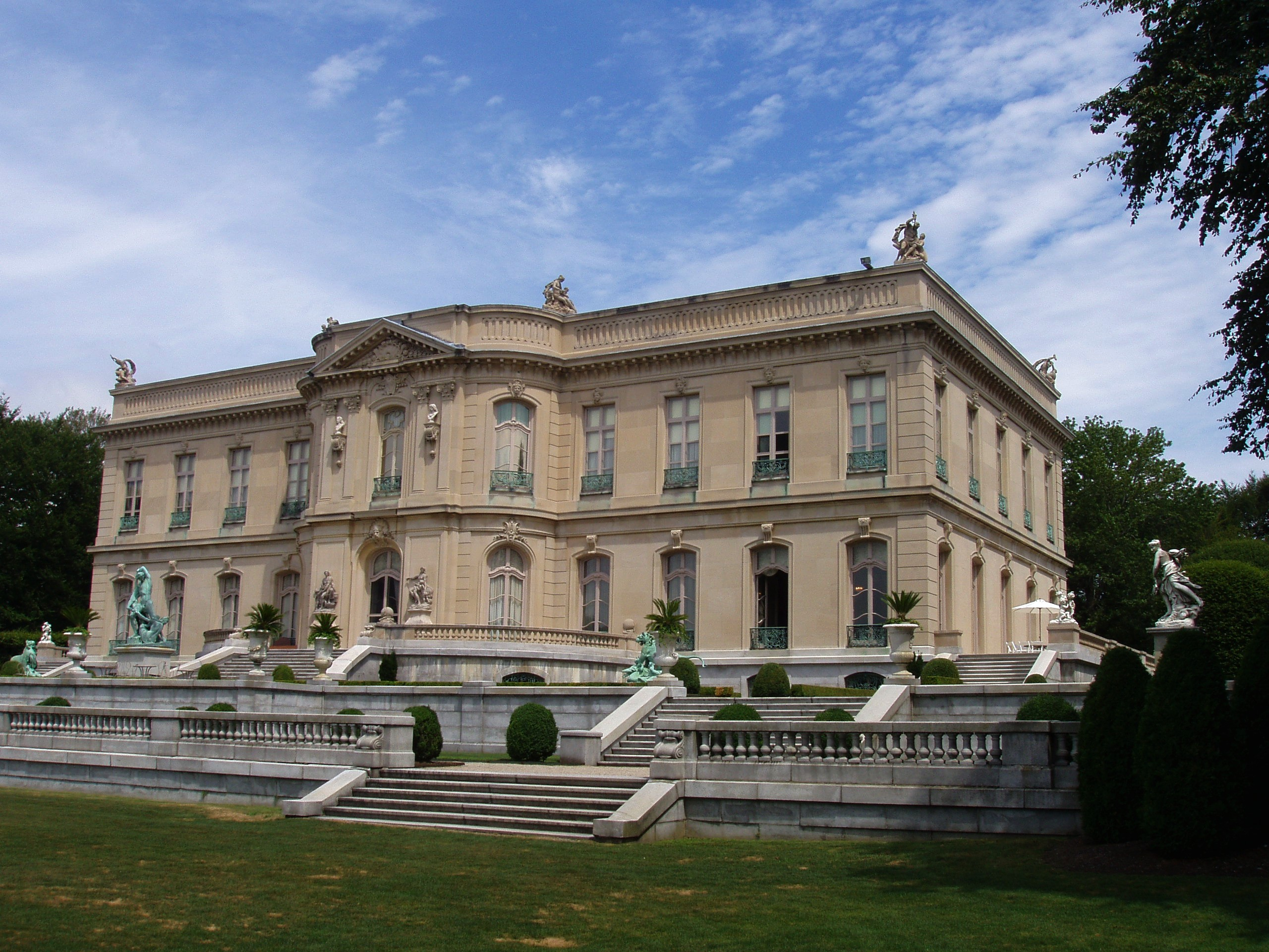 The Elms, Newport, Rhode Island. View from Great Lawn at the rear of the house. Photograph by me, August 2005.